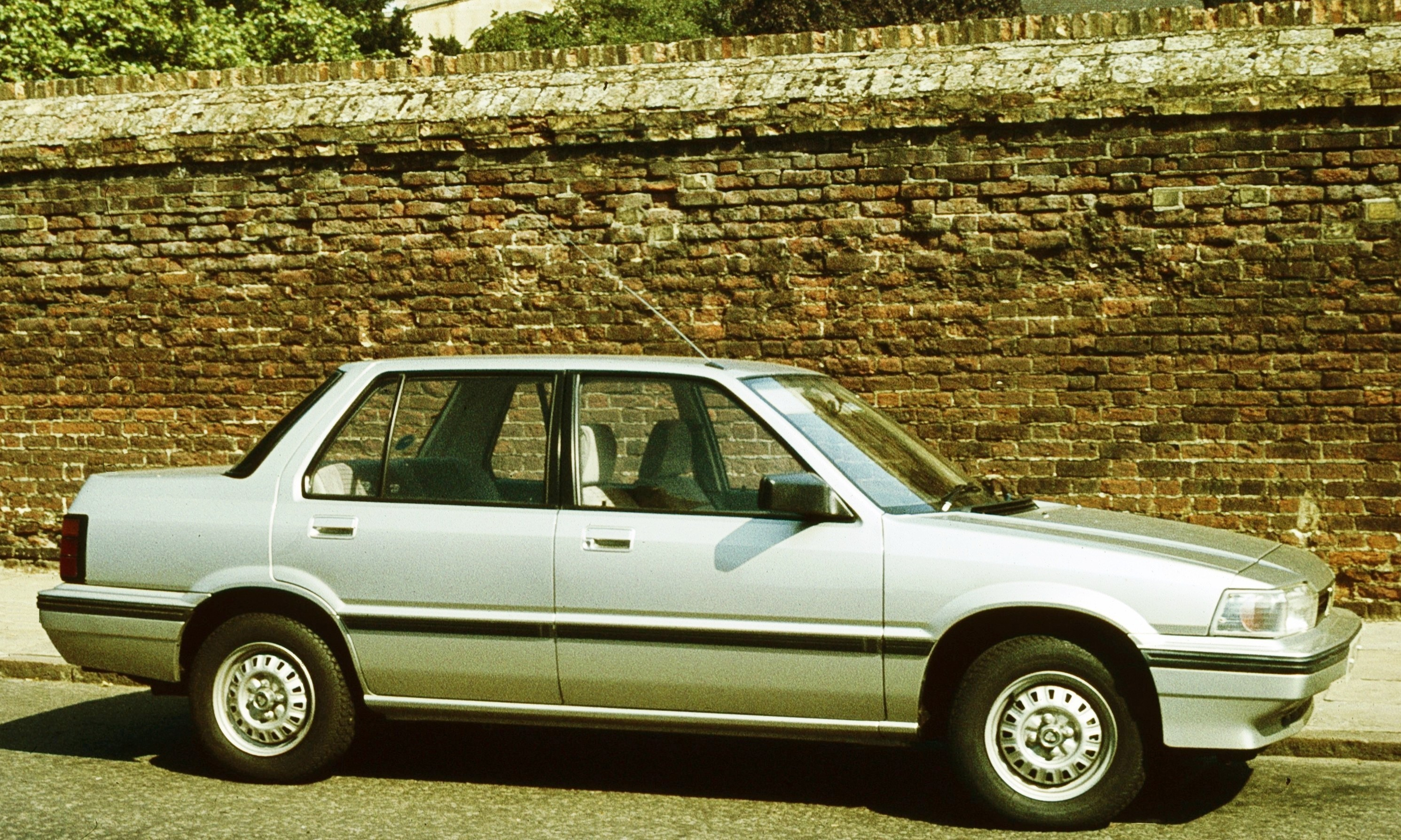 first generation Rover 213 in Cambridge with a good wall